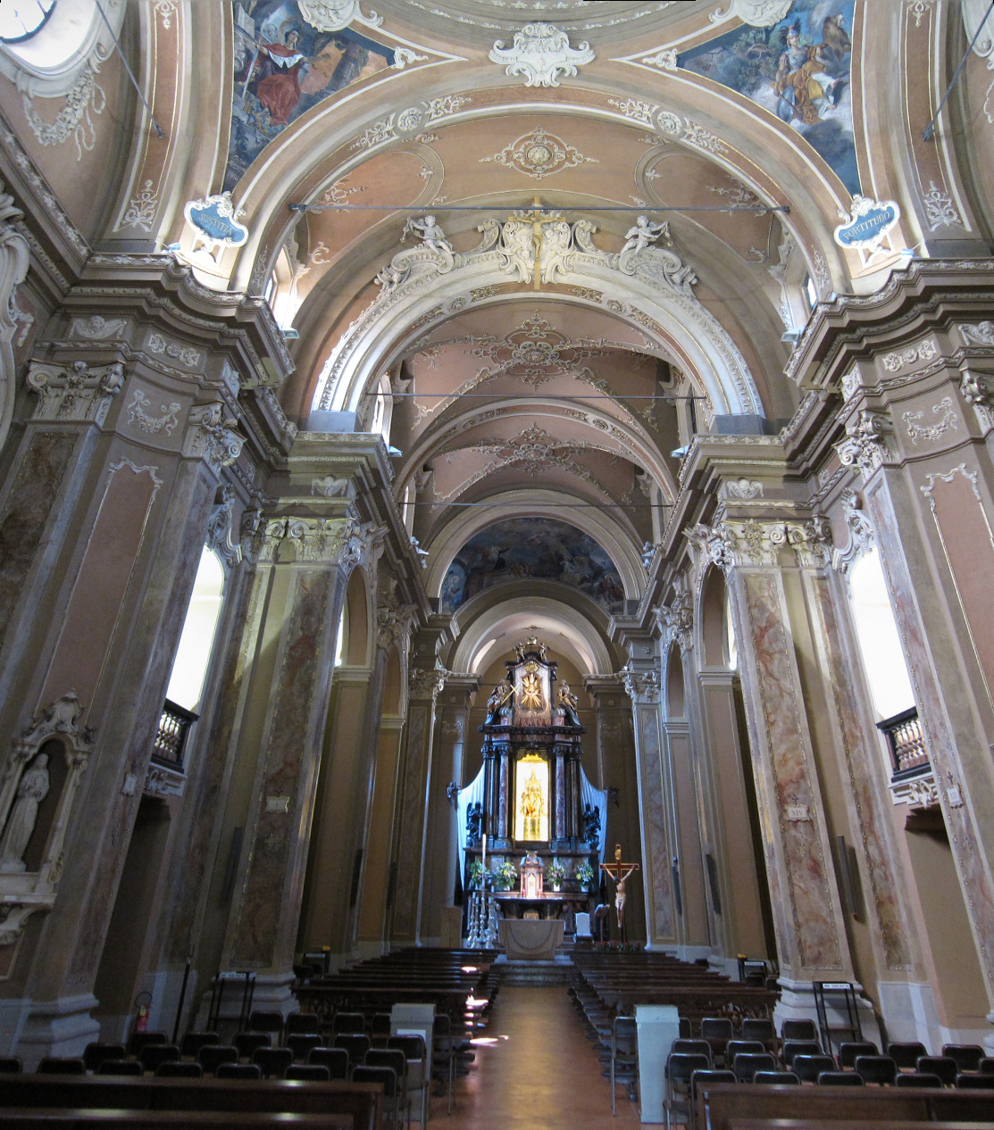 Interior of the Church of Saint Frances of Rome in Milan.